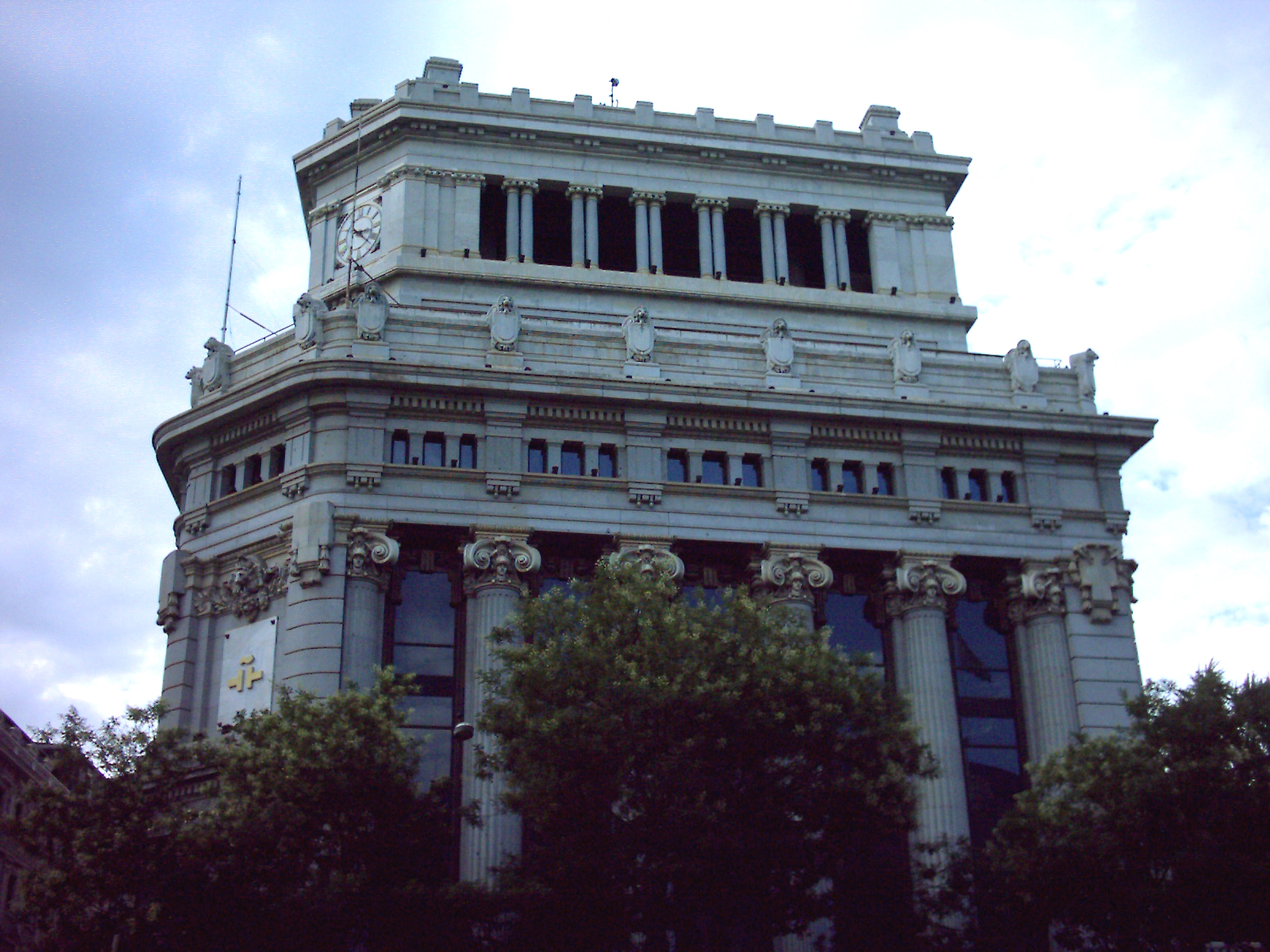 Cervantes Institute, former Rio de la Plata Bank. Architect: antonio Palacios. Madrid, Spain This photo was taken by Balbo in 2006